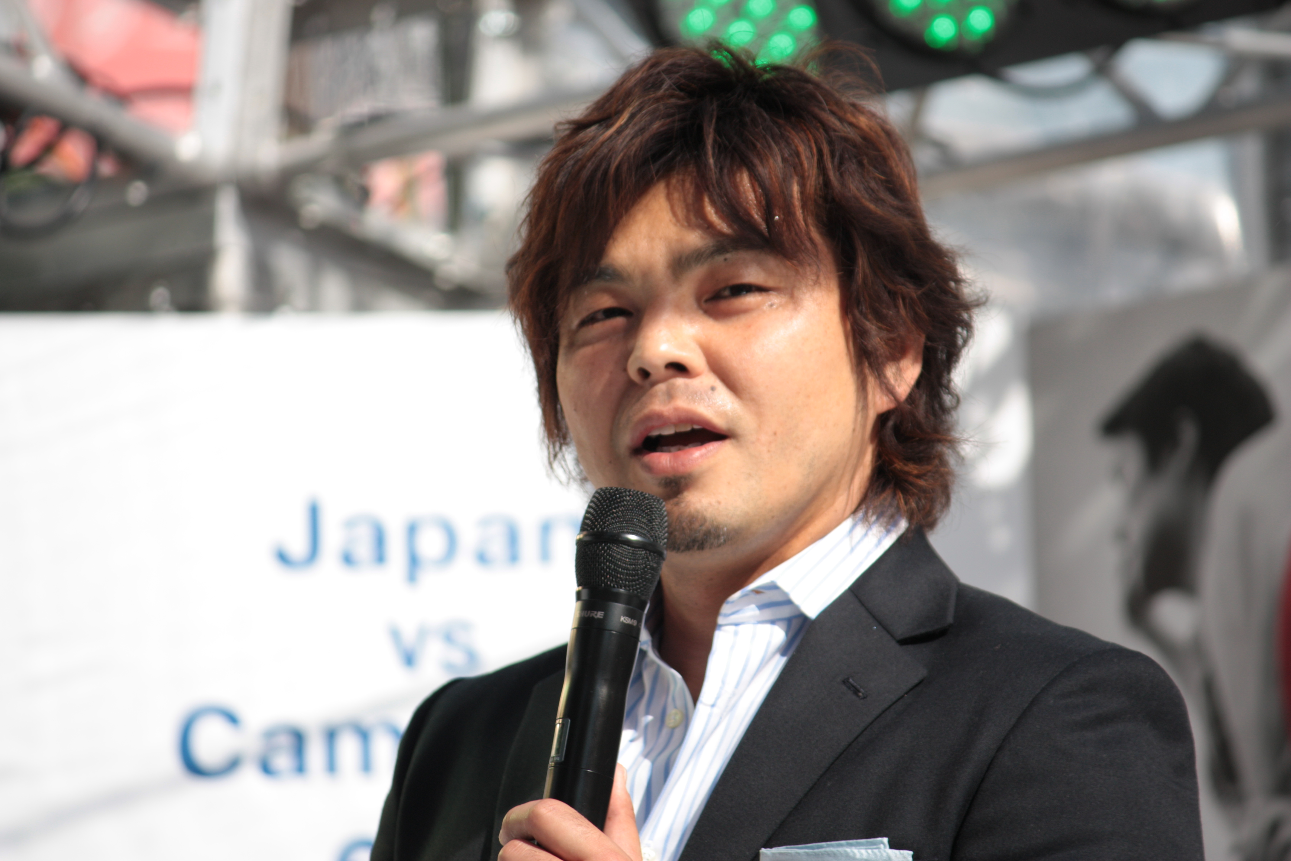 Retired Japanese footballer Shoji Jo.